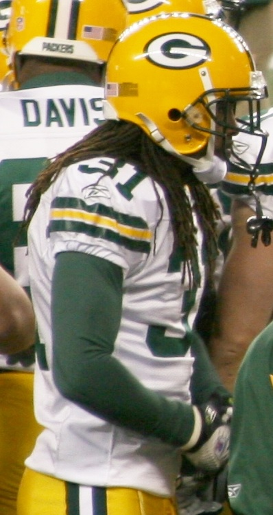 Green Bay Packers players huddle before a Monday Night Football game in Qwest Field of Seattle in 2006.